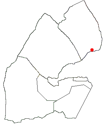 Situation of the port of Obock in the state of Djibouti